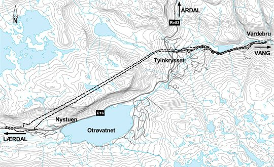 Plan for construction of Filefjell tunnel, road E16